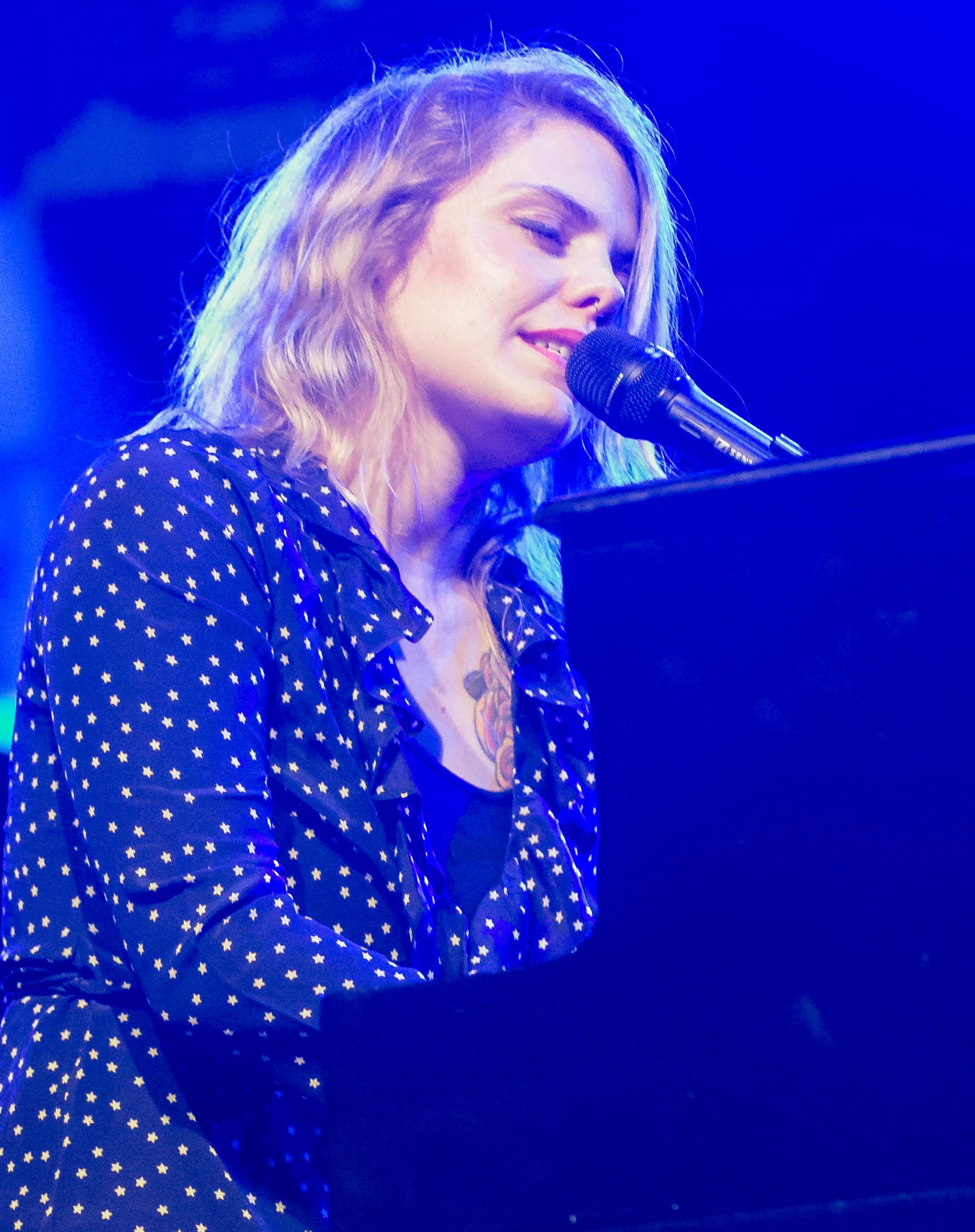 2017-7-30-Ian_McCAusland-Festival-28.jpg